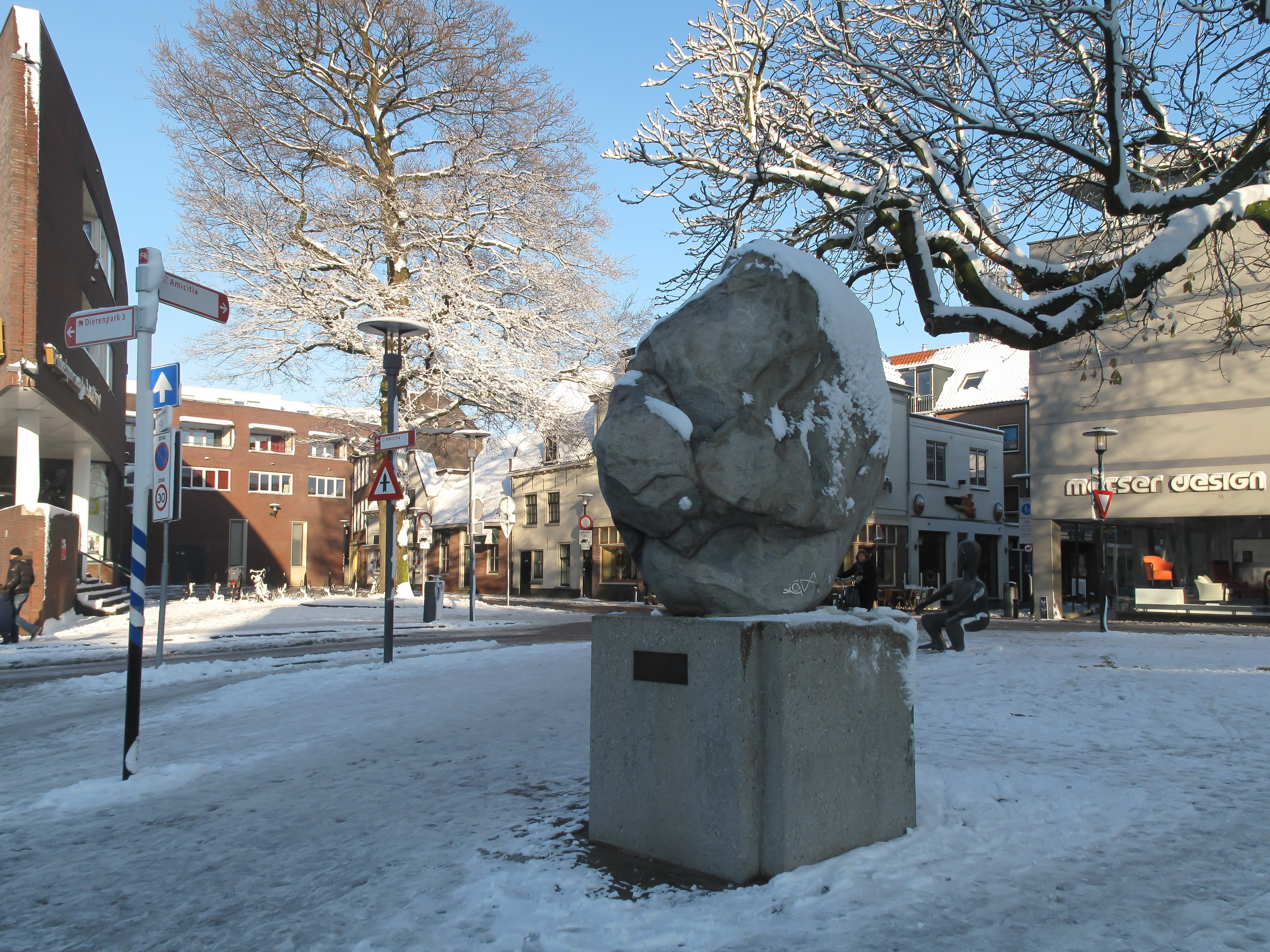 Amersfoort, glacial erratic: de Amersfoortse Kei